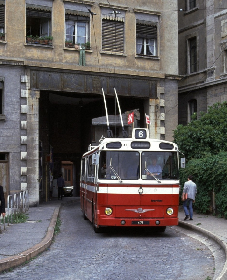 Lyon, France. These special short-length Berliet-Vetras were reserved for the notorious line 6. They were replaced by Swiss-built MAN/Hess trolleys, because no French manufacturer produced a chassis short enough. 471 is seen on the passage between Rue Neyret and Rue des Tables Claudiennes.